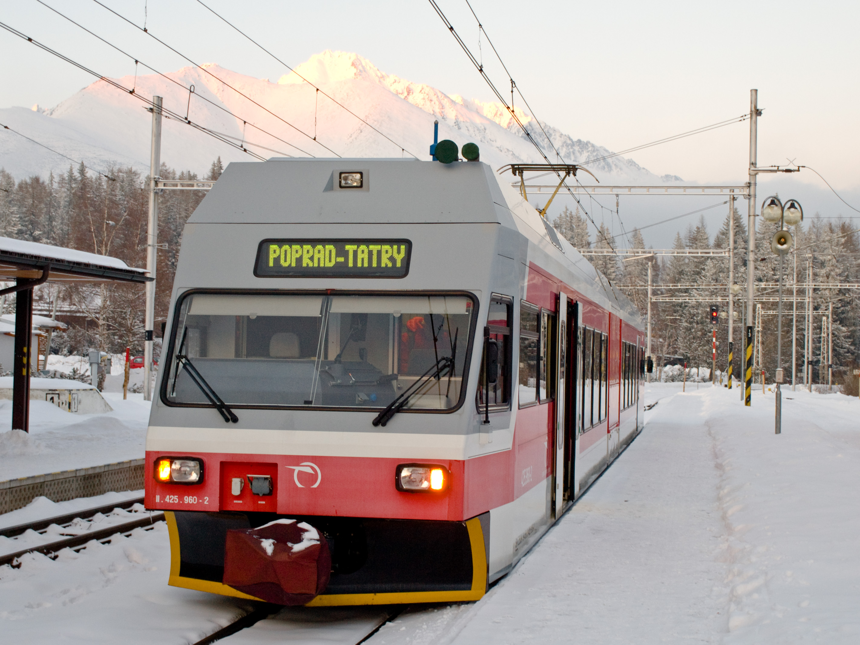 EMU 425.95 of Tatra Electric Raylways at Štrbské pleso train station